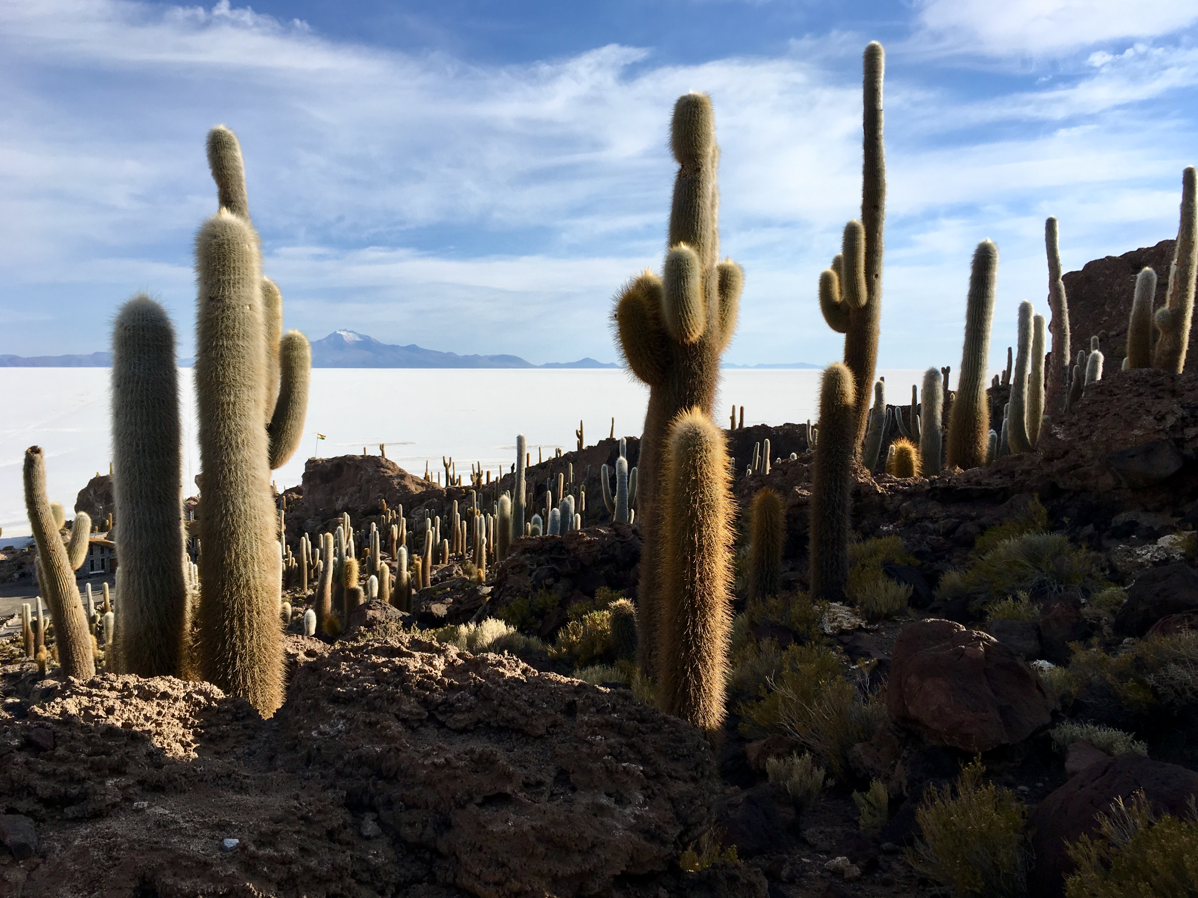 View of the Salar de Uyuni, the surrounding mountains and giant cactuses (Echinopsis atacamensis) in Incahuasi island, Daniel Campos Province, Potosí Department, southwest Bolivia, not far from the crest of the Andes. This salt flat is, with a surface of 10,582 square kilometers (4,086 sq mi), the world's largest.